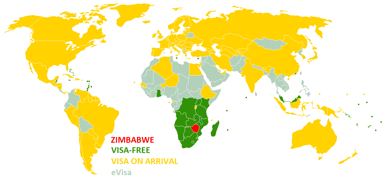 Visa policy of Zimbabwe Zimbabwe Visa exemption Visa on arrival eVisa